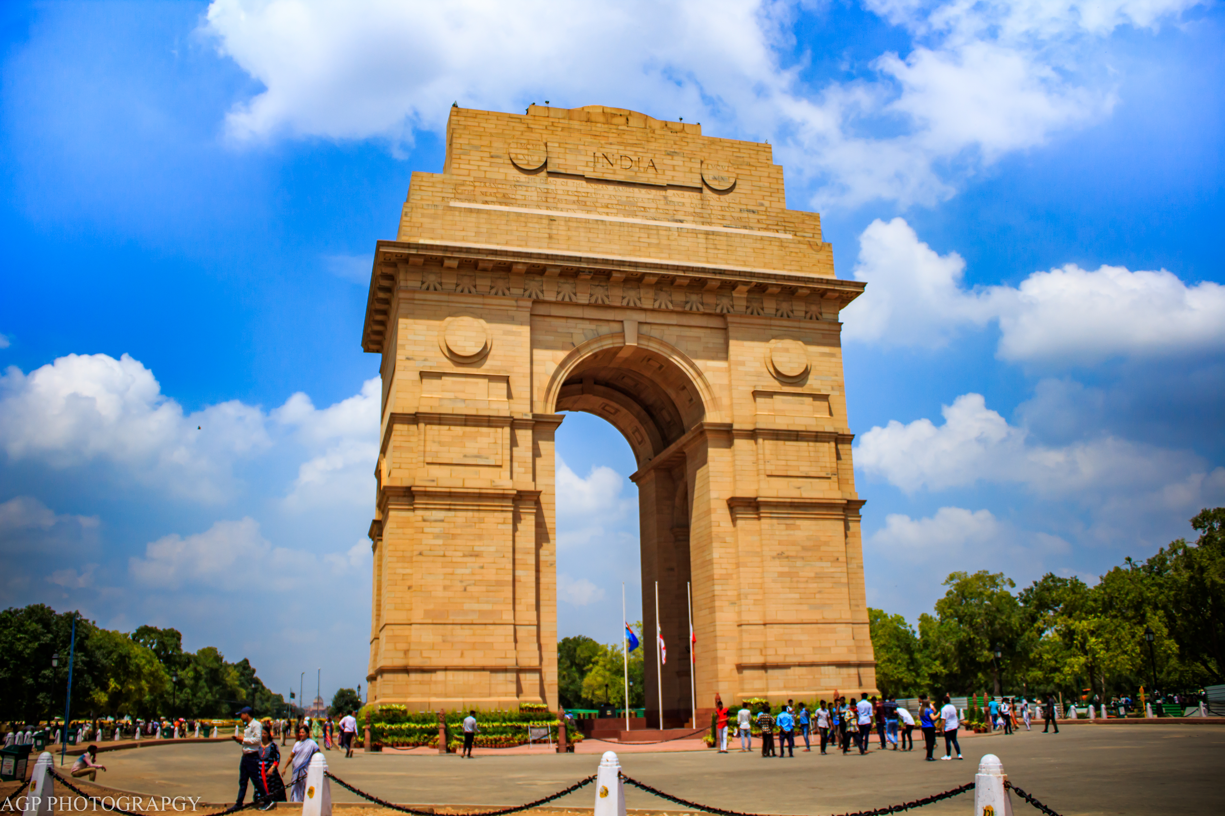 View of India Gate on a Hot Sunny Day...